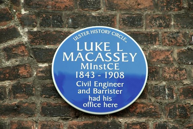 Macassey plaque, Belfast. This plaque, on 7 Chichester Street 564371 was erected last month to commemorate Luke Livingstone Macassey - civil engineer and barrister